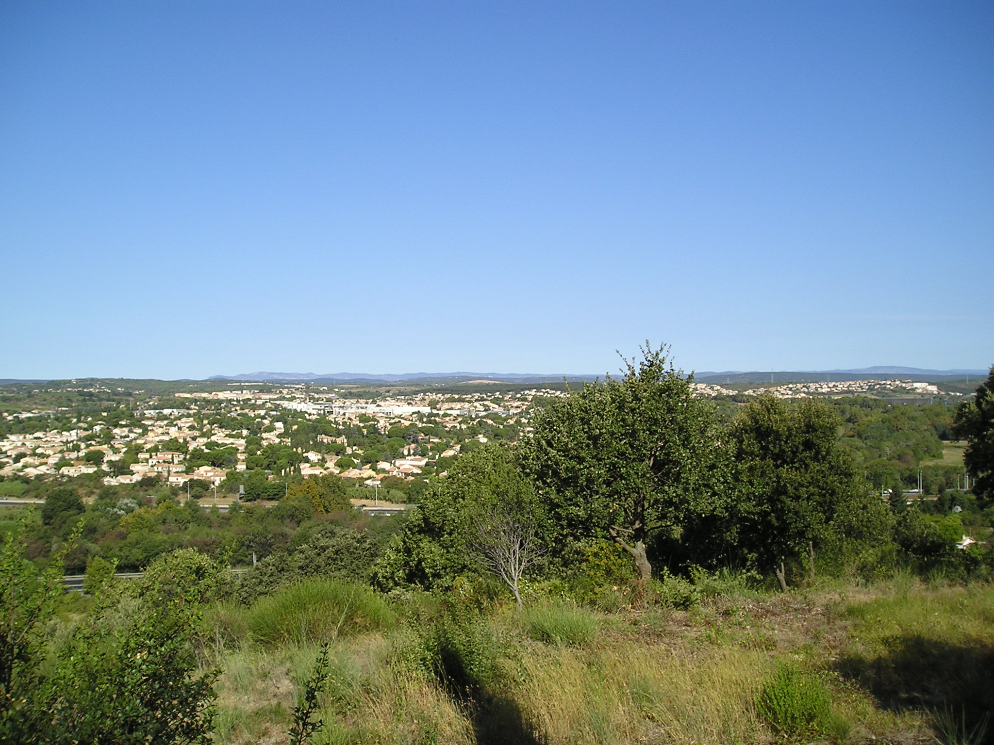 General view of Juvignac, Hérault, France, view from South-East in a street of Montpellier.